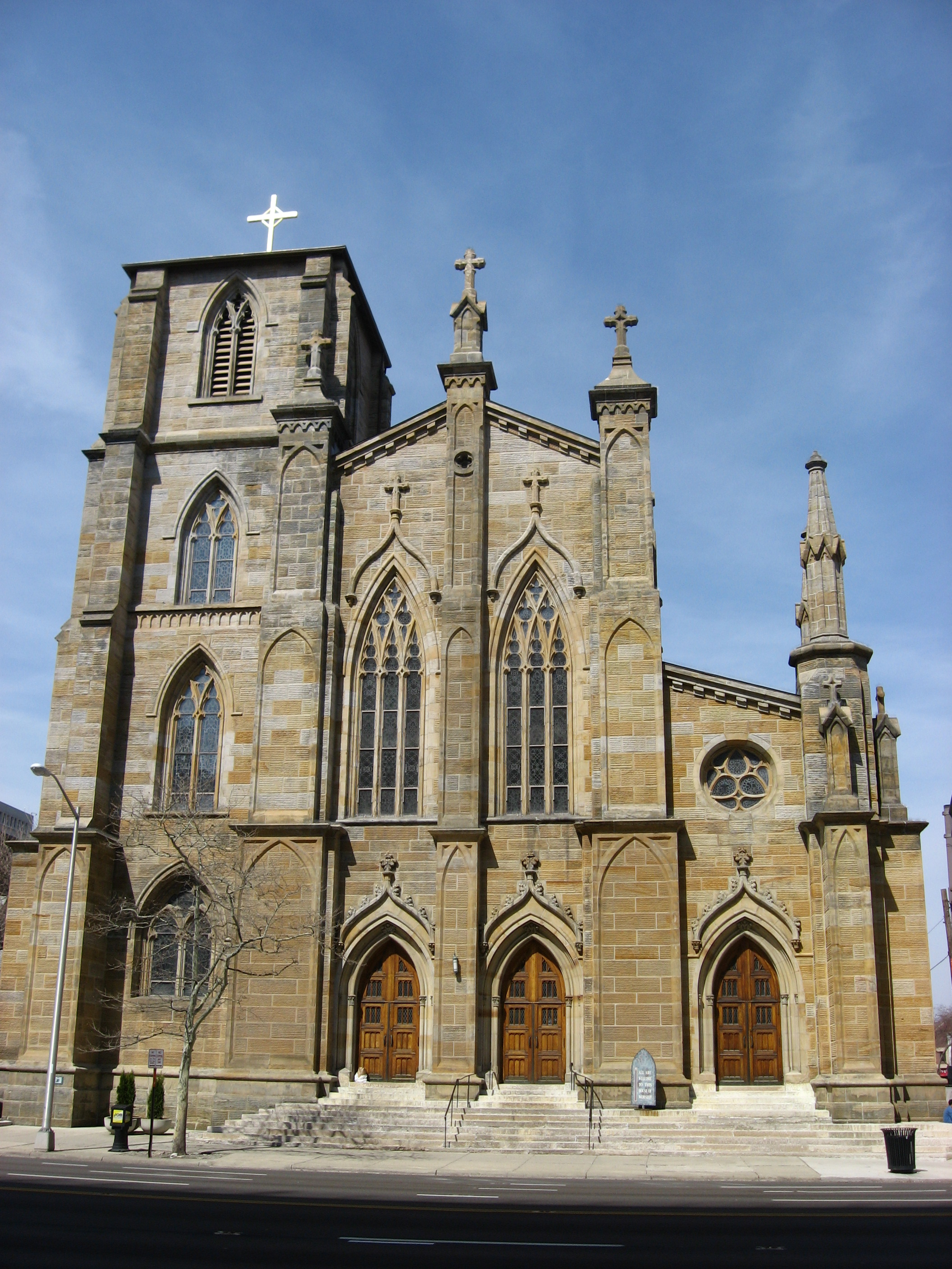 Front of St. Joseph's Cathedral, the cathedral church of the Roman Catholic Diocese of Columbus, located at 212 E. Broad Street in downtown Columbus, Ohio, United States.